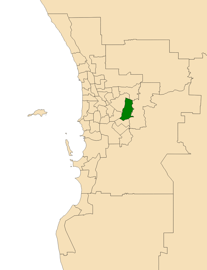 Location of the electoral district of Forrestfield in the Perth metropolitan area, Western Australia as of the 2017 WA state election.